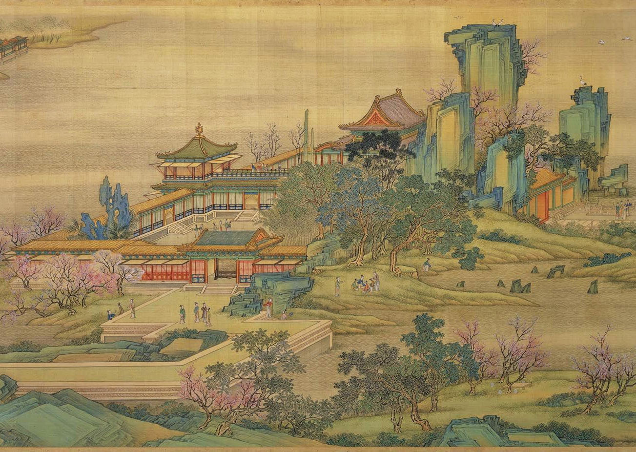 A portion of Image:Along the River 7-119-3.jpg suitable for thumbnail purposes. Full image below